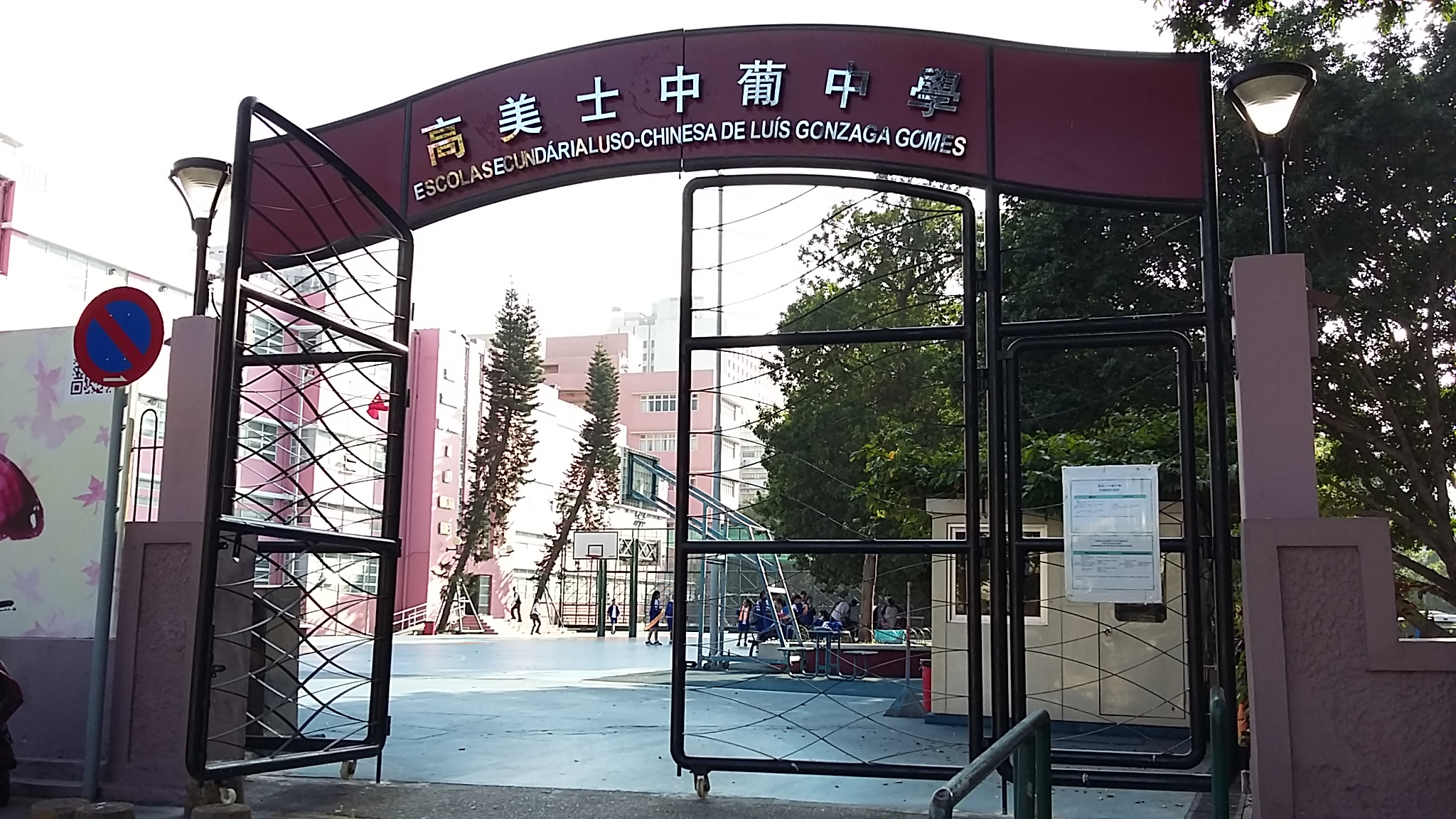 The main entrance of the Escola Secundária Luso-Chinesa de Luís Gonzaga Gomes in Macau.